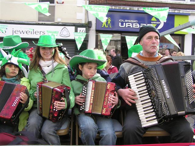 Saint Patrick's Day Parade, Omagh - (53) Live music on the move